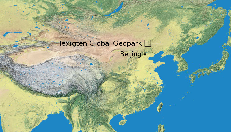 Location of Hexigten Global Geopark on topographic map of China